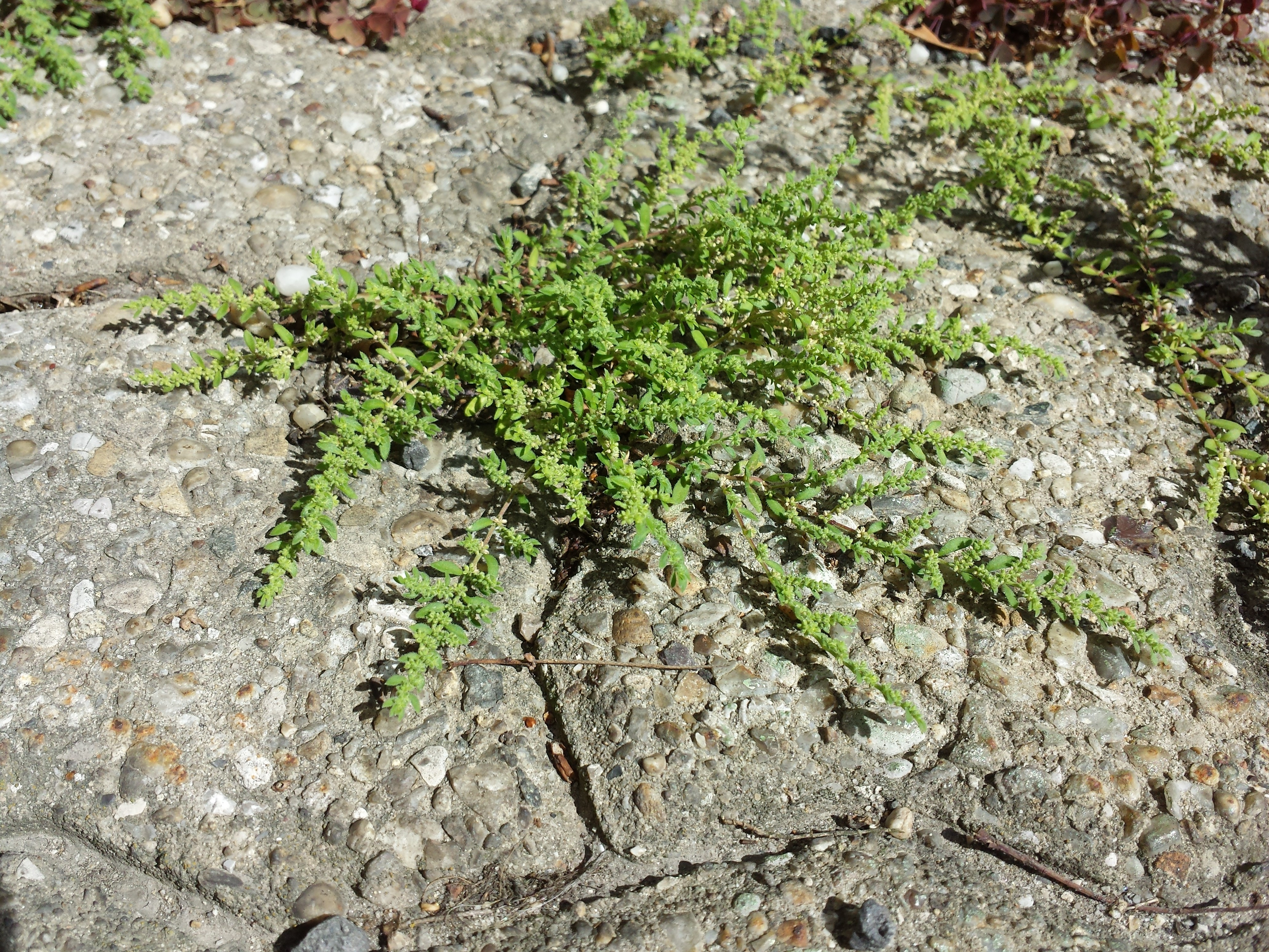 Habitus Taxonym: Herniaria hirsuta ss Fischer et al. EfÖLS 2008 ISBN 978-3-85474-187-9 Location: Fahrbachgasse, Vienna-Floridsdorf - ca. 160 m a.s.l. Habitat: gap in road surfacing